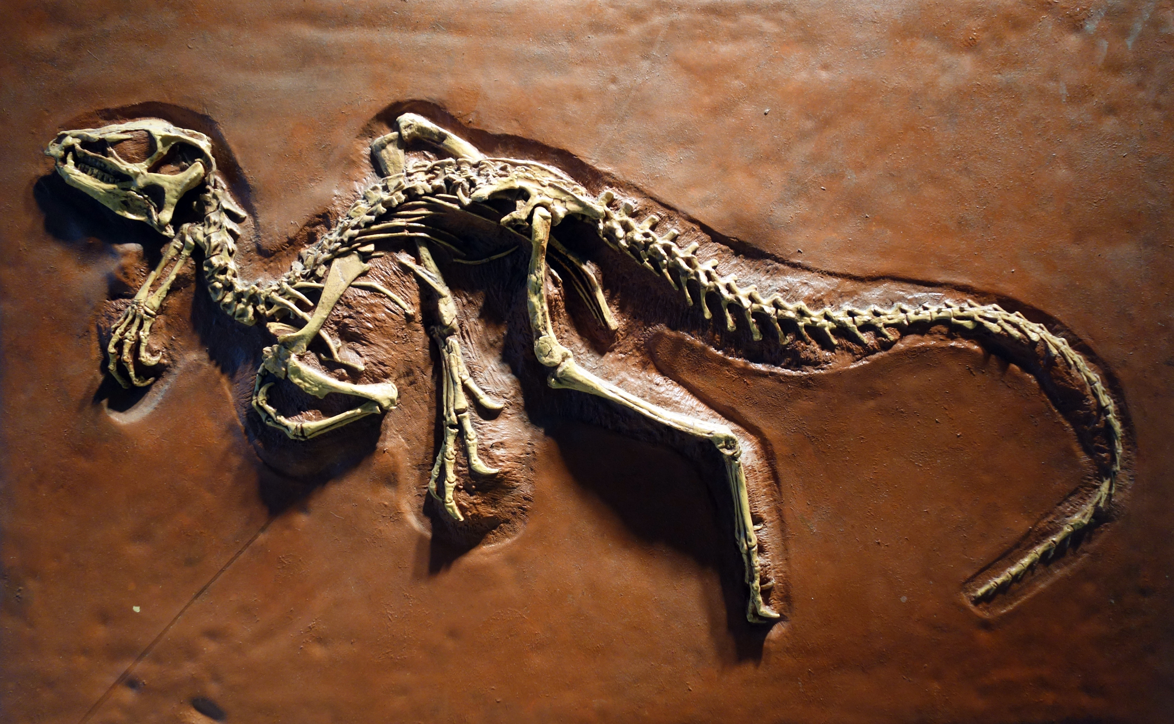 Specimen displayed by the University of California Museum of Paleontology, Berkeley, California, USA. Photography was permitted without restriction.